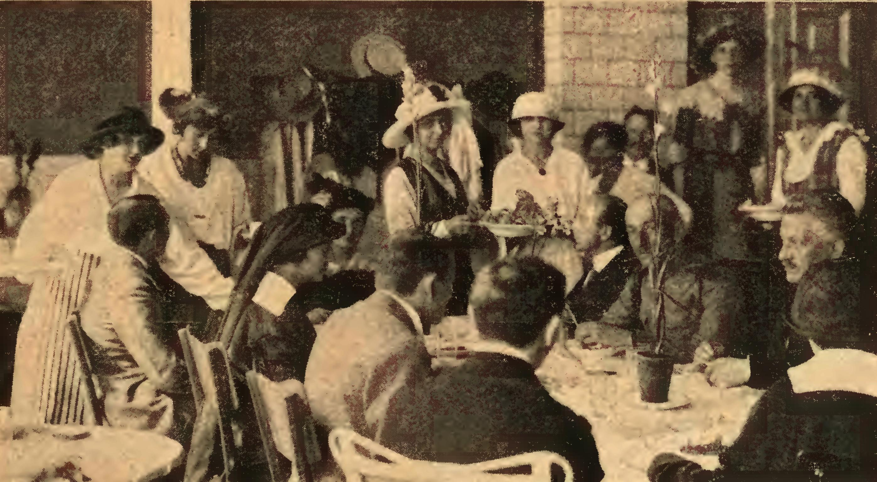 Warsaw - cheap kitchen 1915 First World War